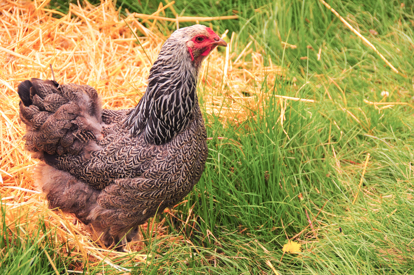 A Dark Brahma hen. see also Image:Dark Brahma Hen, Oregon 2.jpg for same bird.